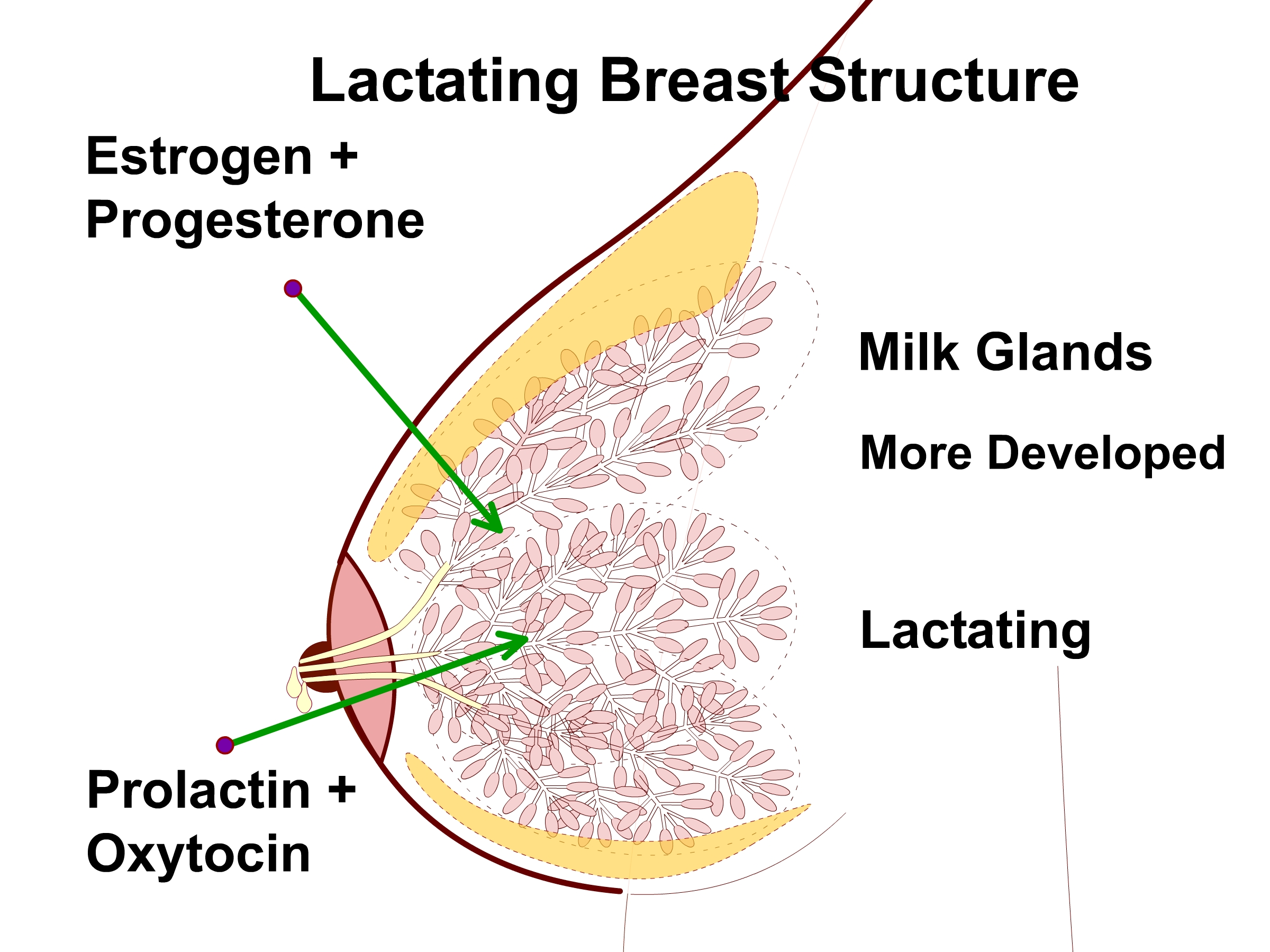 Schematic diagram showing lateral view of Structure of Human Lactating breast. The development of glandular structure further occurs mainly under the influence of Hormone - Progesterone. After birth of baby milk production and secretion starts under the influence of Hormones - Prolactin and Oxytocin respectively.